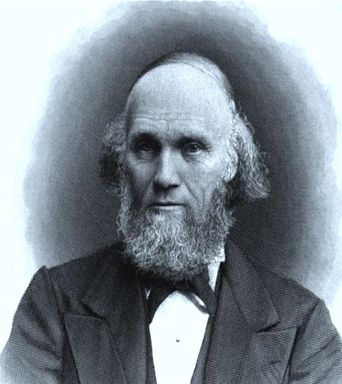 I. N. Tarbox